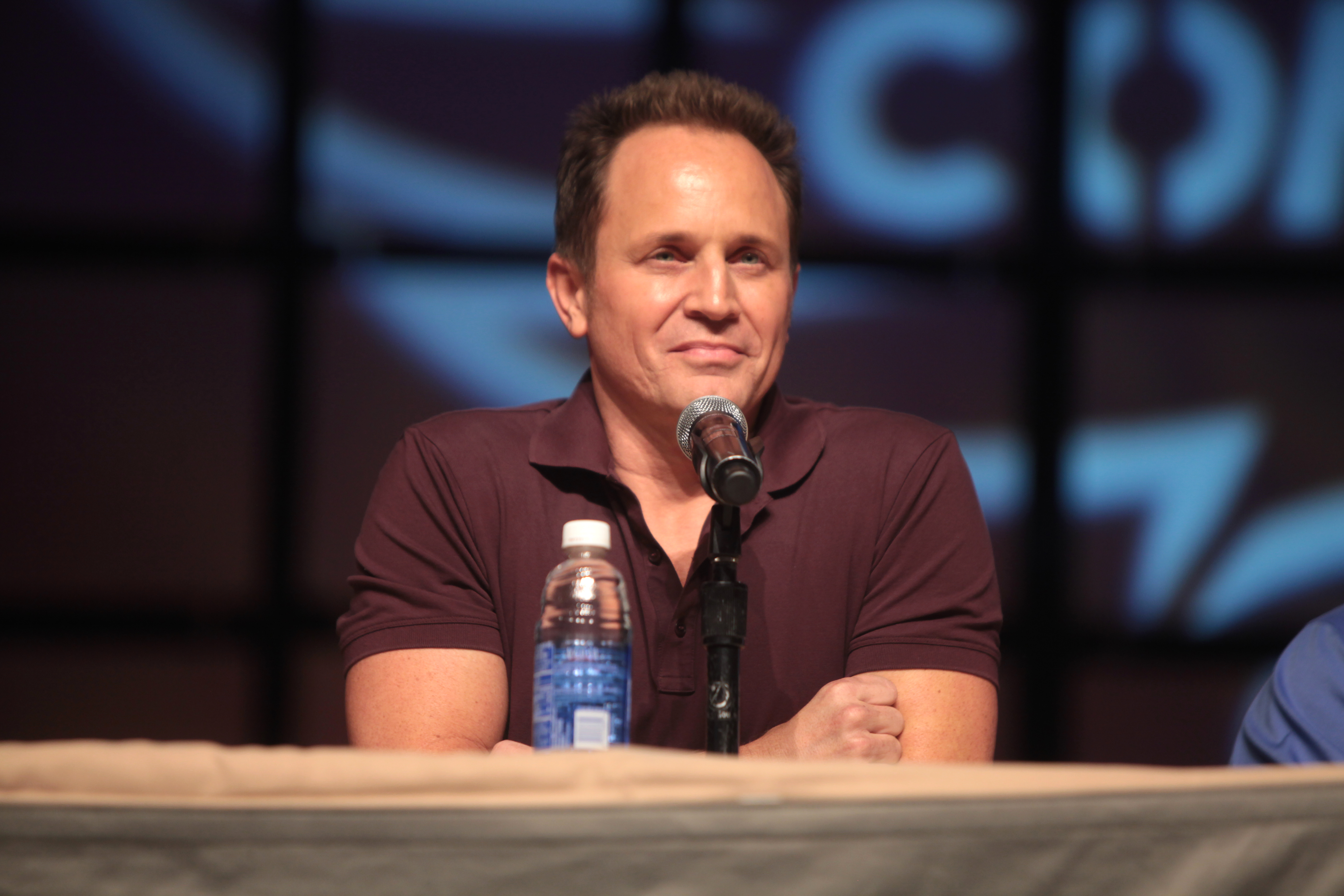 David Yost speaking at the 2014 Phoenix Comicon at the Phoenix Convention Center in Phoenix, Arizona.